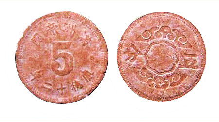 Manchukuo cardboard coin